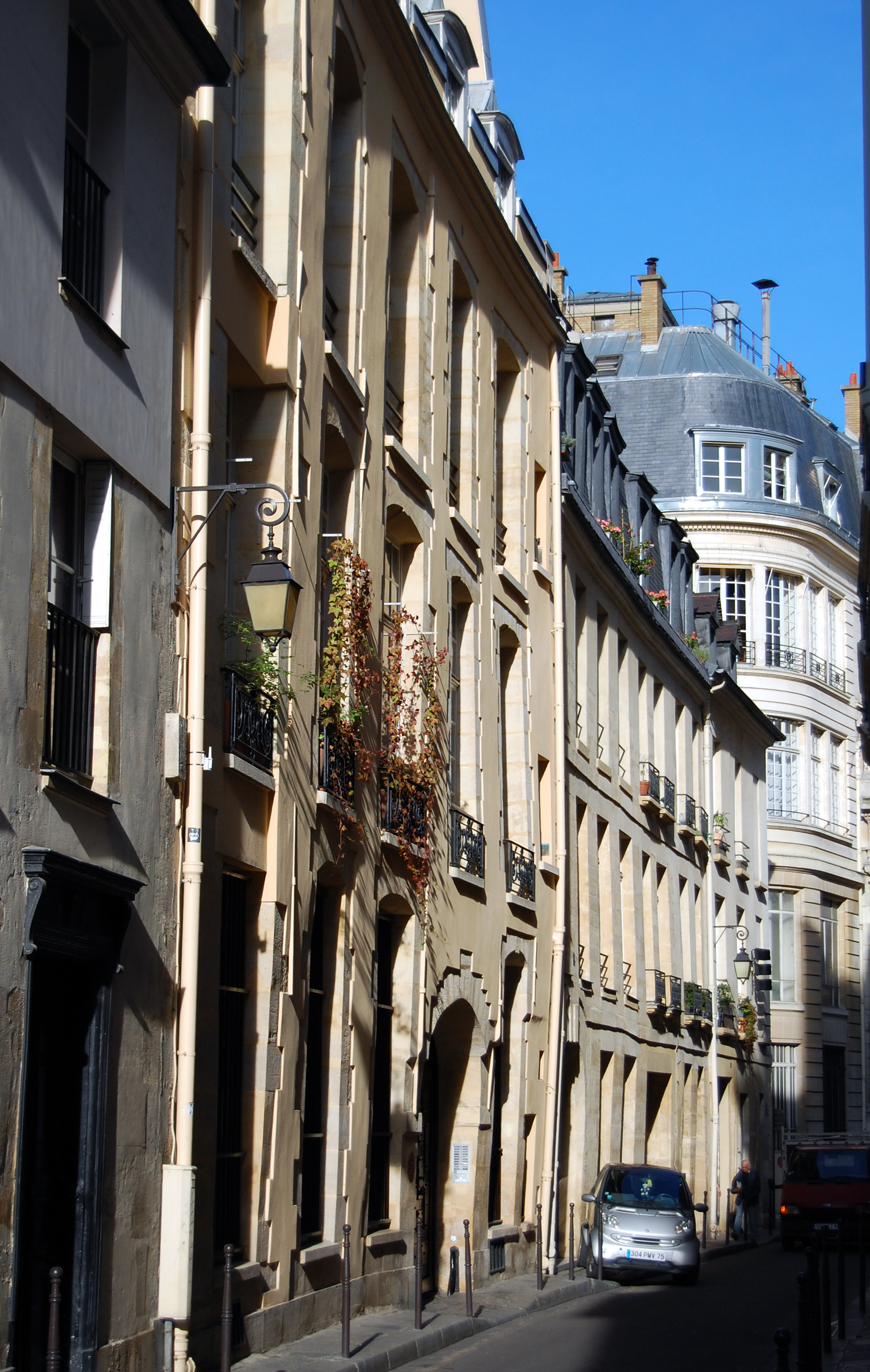 rue Aubriot, Le Marais, Paris, France